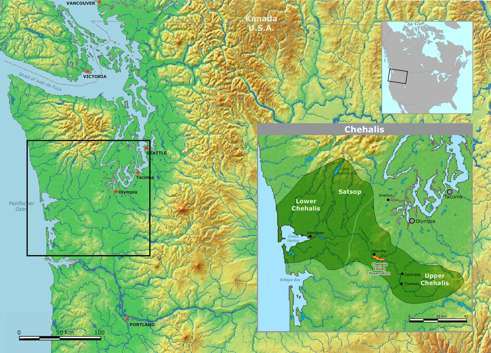 Map of traditional Chehalis tribal territory.